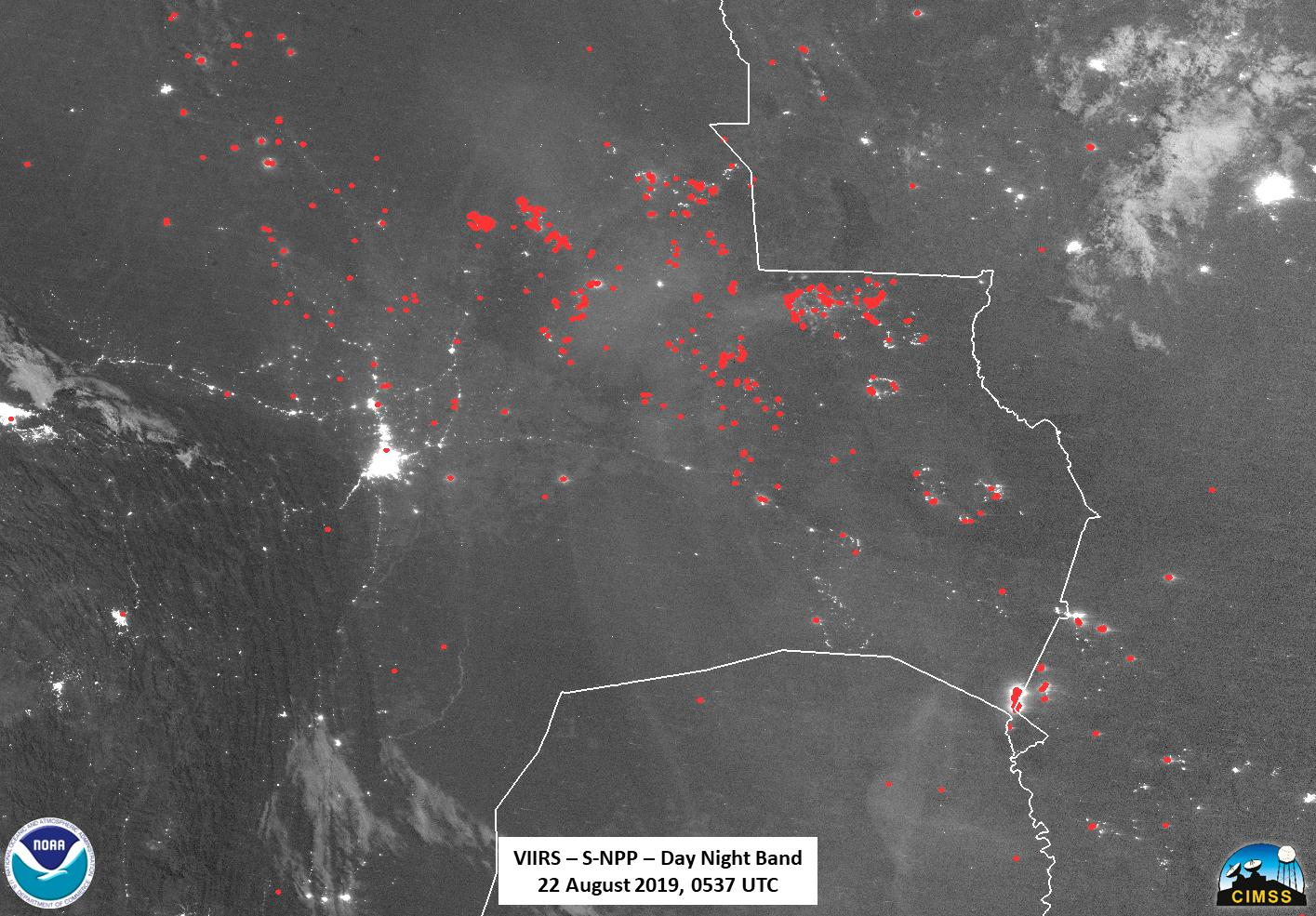 Santa Cruz Department in Bolivia: NOAA Satellites PA @NOAASatellitePA The NOAA-NASA #SuomiNPP🛰️shows the #smoke (gray, wispy areas) and the locations of active #fires (red dots) in #Bolivia from very early today (August 22, 2019). The city lights of Santa Cruz, Bolivia’s largest city, are visible as the bright, white glow in the left-center of the image.